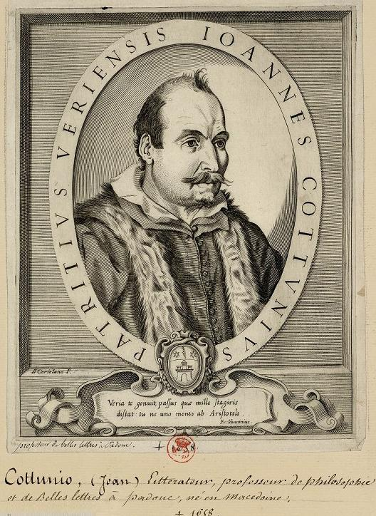 Ioannis Kottounios (1572-1657), (Greek: Ιωάννης Κοττούνιος) Giovanni Cottunio, Greek Macedonian scholar. He was born in Veria in 1572. Professor and Lecturer at the University of Padua. Inscriptions "IOANNES COOTVNIVS PATRIVS VERIENSIS"